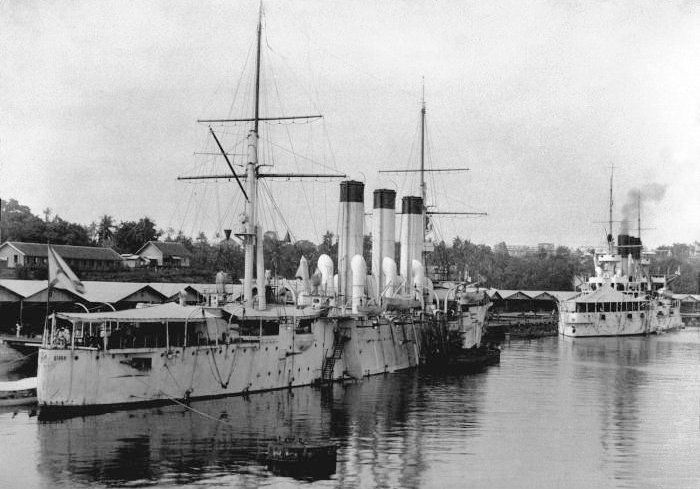 This Photo is the first of two from the archive of "panoramafoto" (60011323-60011324). Navyships in the harbor of Sabang on the island Weh. The ships are Russian, visiting Sabang in 1903 on a way from Baltic Sea to Port Arthur: in the foreground "Диана" (Diana) a Pallada-class cruiser, while the other ship is battleship Ретвизан "Retvisan")